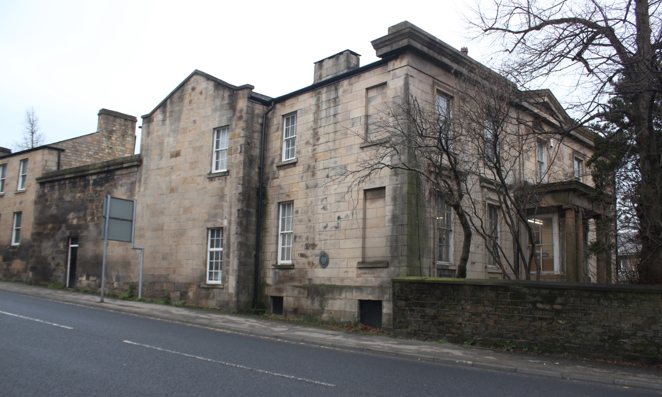 The first station in Lancaster was the terminus of the Lancaster and Preston Junction Railway in the Greaves district near the canal. It was superseded by the Lancaster and Carlisle station by the castle. The building is now par tof the city's Royal Infirmary.